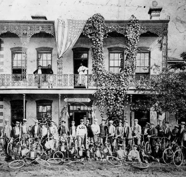 The headquarters for the Lord's Cycle Club at 109 Chenevert Street at Congress Avenue. The two story brick house in Houston was built about 1859 by Micheal Floeck, a German baker.